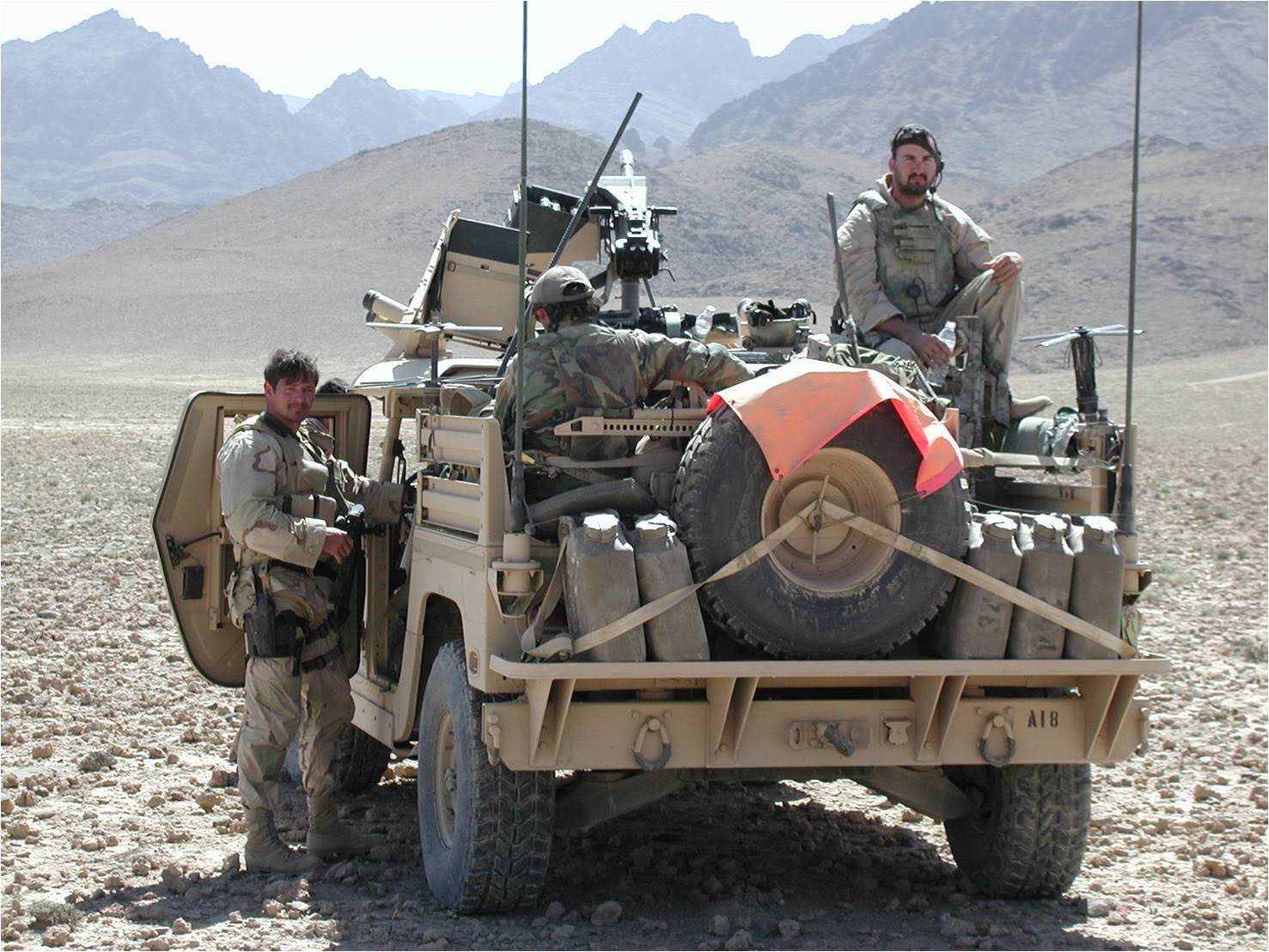 090112-F-1234S-027.JPG On 19 July 2003, Tech. Sgt. Kevin Whalen (right), a Terminal Attack Controller from the 116th Air Support Operations Squadron, Washington National Guard, was supporting an Afghan Military Forces and U.S. Special Forces combat patrol in the Gayan Valley, Afghanistan. The patrol was hit in a well-coordinated ambush by a numerically superior enemy force.